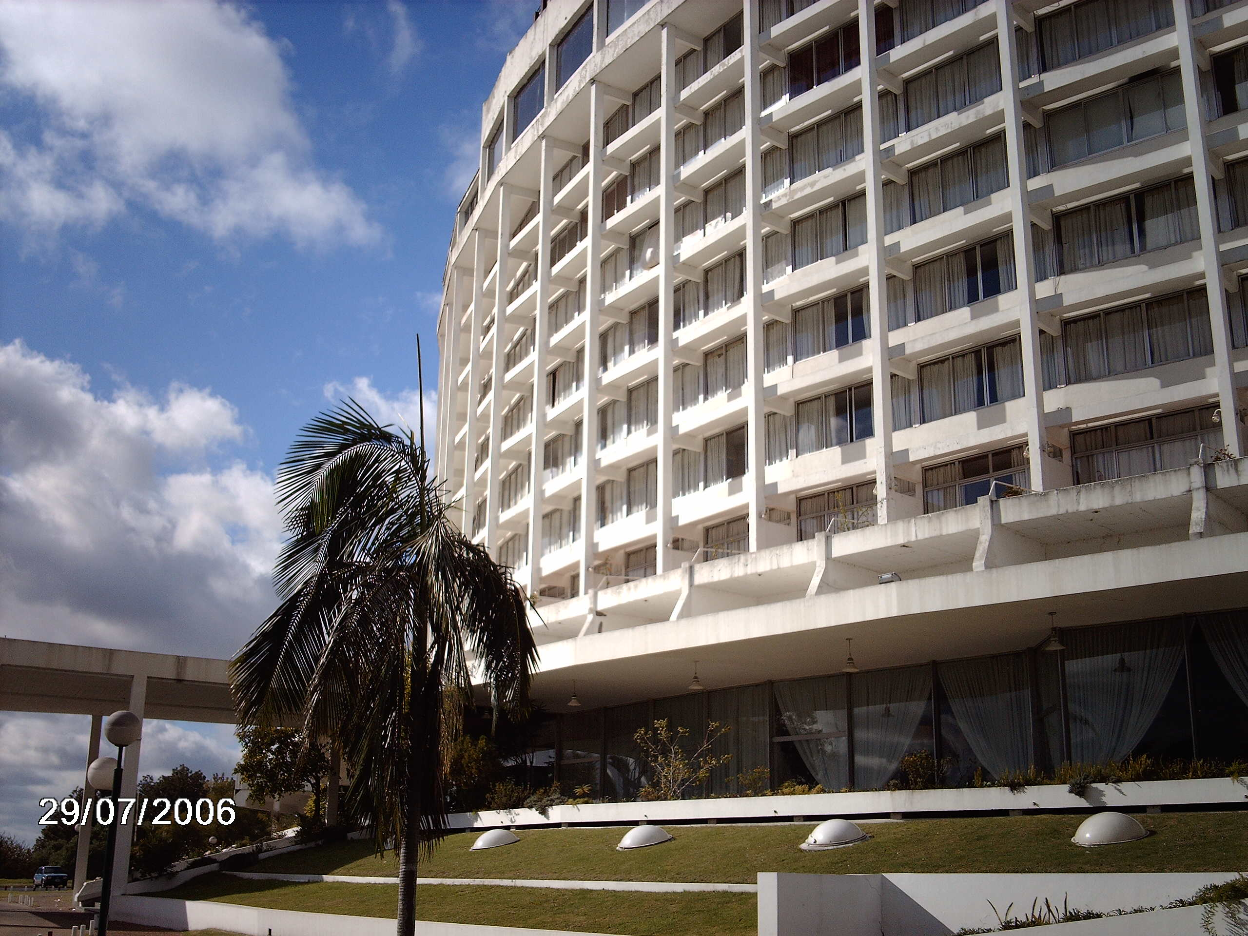 Hotel Mayorazgo, Paraná, Entre Ríos Province, Argentina.